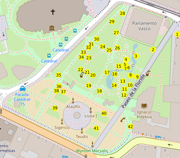 Botanic itinerary at La Florida Park in Vitoria-Gasteiz. The numbers on the image represent each of the trees and shrubs arranged in the itinerary.